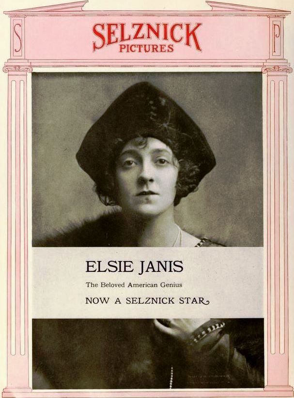 Ad with actress Elsie Janis promoting her Selznick Pictures films, in the color insert after page 1878 of the June 28, 1919 Moving Picture World.